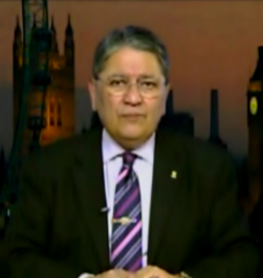 Alireza Nourizade In News Talk Program in VOA PNN